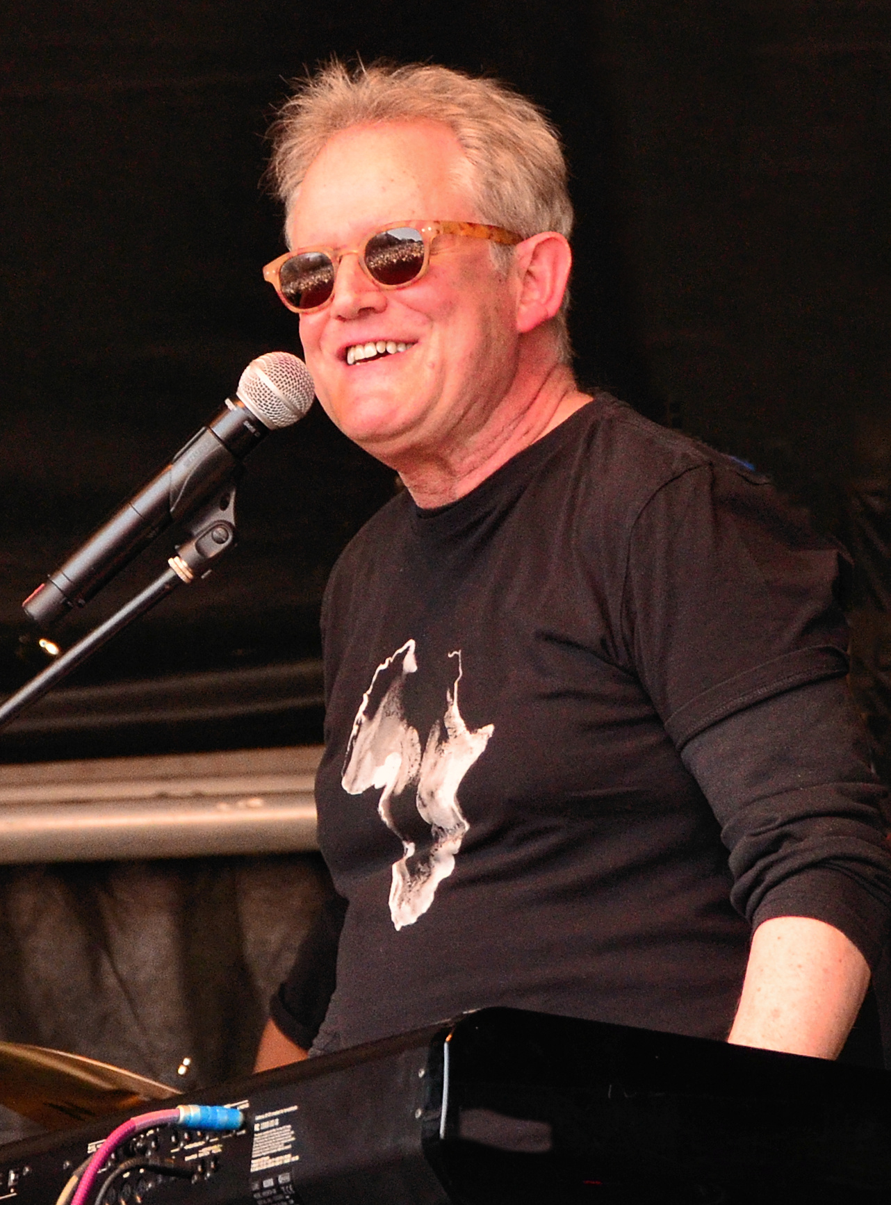 Coenie de Villiers performing in Johannesburg in 2019